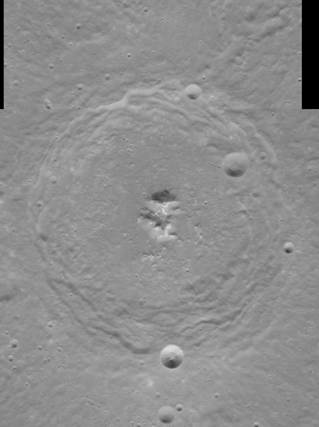 Brahms crater on Mercury. Mosaic of MESSENGER Wide Angle Camera images. The upper quarter of the image has been horizontally compressed slightly to match the lower image, and cropped. North is up. Stats for the lower image are below: Emission Angle: 0.2 Incidence Angle: 58.3 Latitude: 58.0 Longitude: 182.8 Phase Angle: 58.4